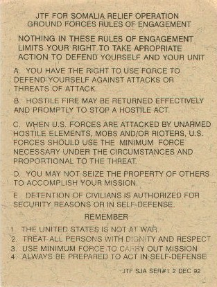 Rules of Engagement for Operation Provide Relief, 1992. Courtesy of the 75th Ranger Regiment, U.S. Army.